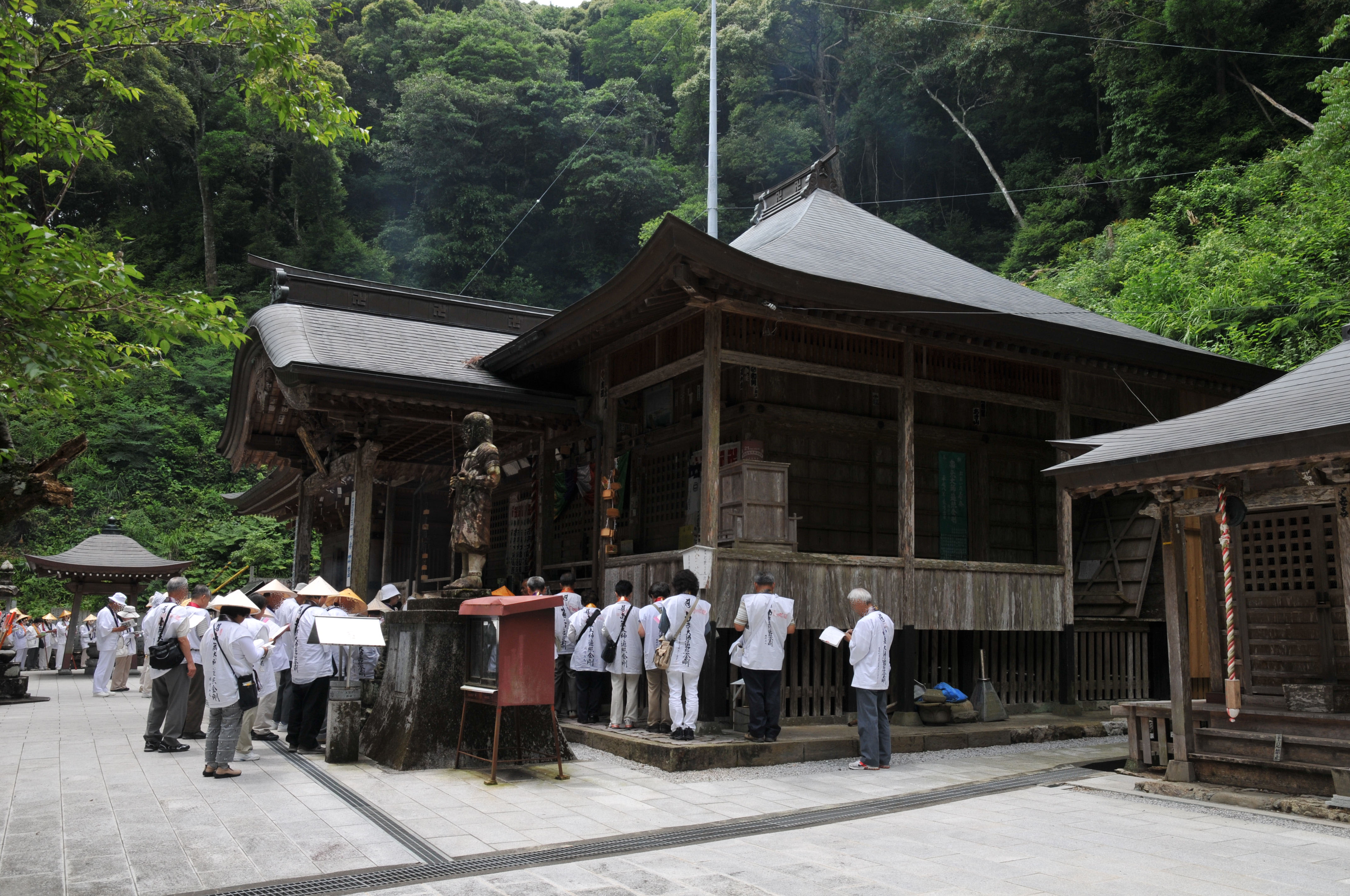 Main temple, Shōryū-ji